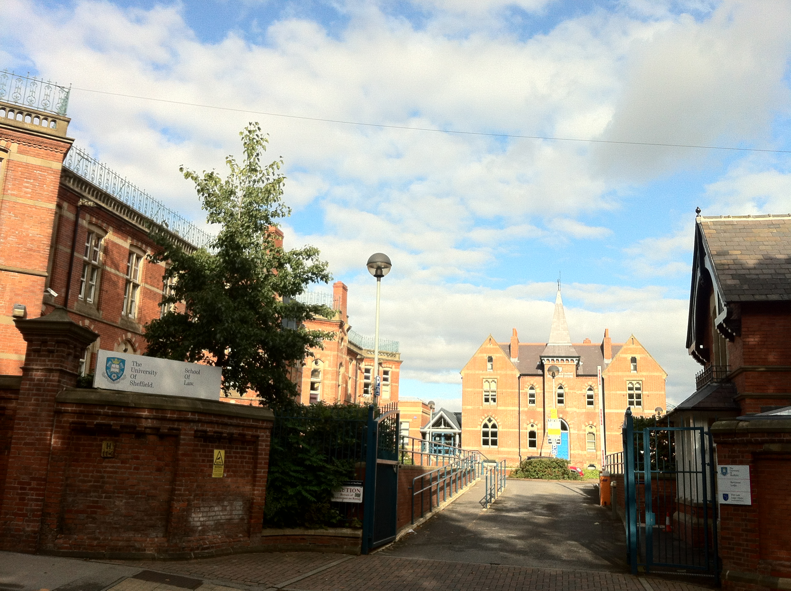 school of law in uni of sheffield